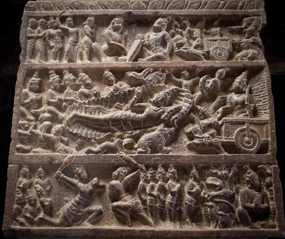 Group of Monuments Pattadakal